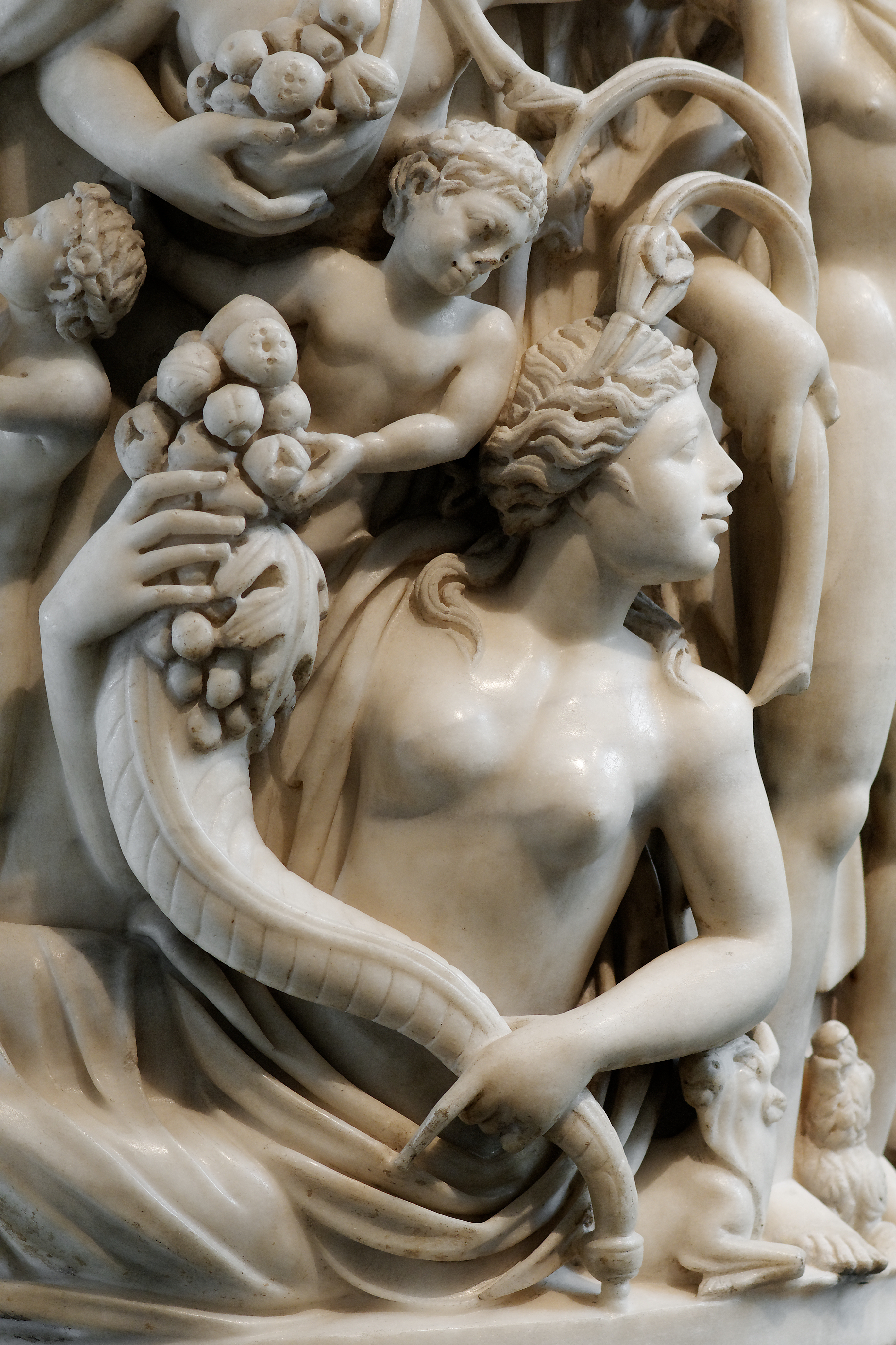 Allegory of Mother Earth, detail of the front of a sarcophagus with the triumph of Dionysos and the Seasons. Roman artwork of the Late Imperial (Gallienic) period. Said to be from Rome.